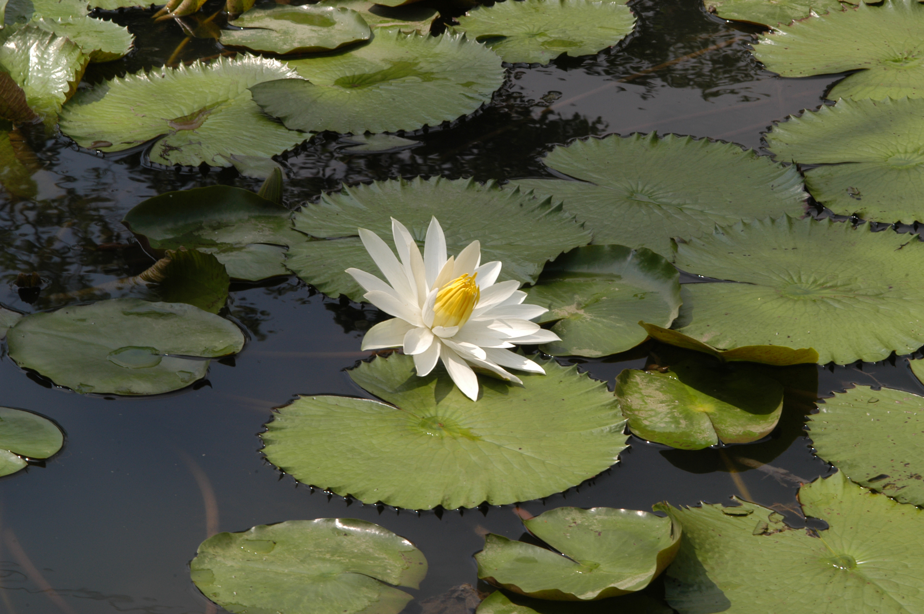 Nymphaea lotus